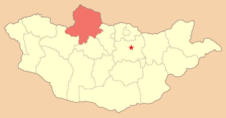 Map of Mongolia with Khuvsgul Aimag highlighted.